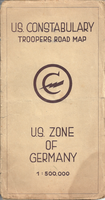 Cover of a U. S. Constabulary road map of Germany